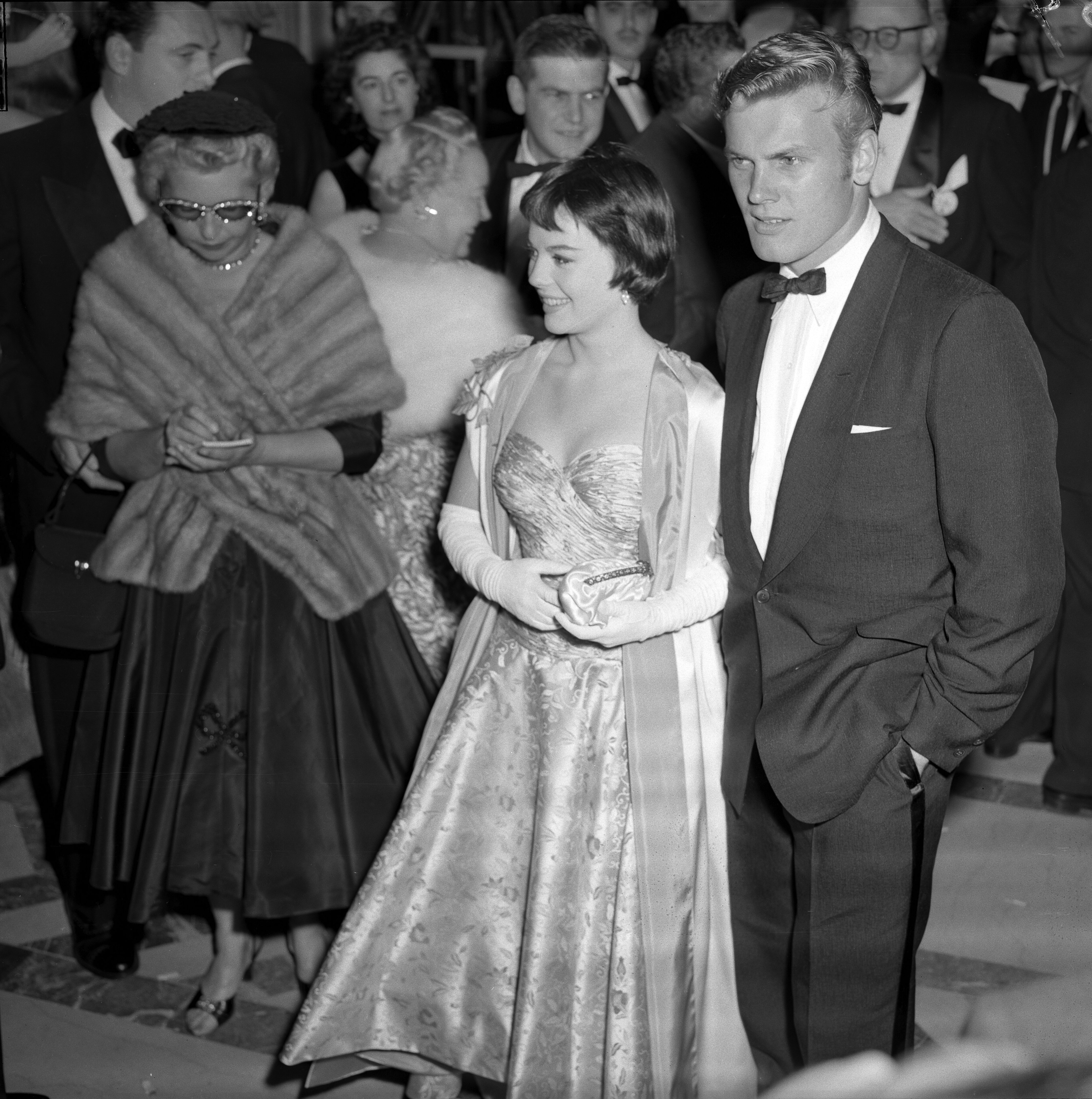 Actors Natalie Wood and Tab Hunter arrive to the 28th Academy Awards with gossip writer Louella Parsons in the background.